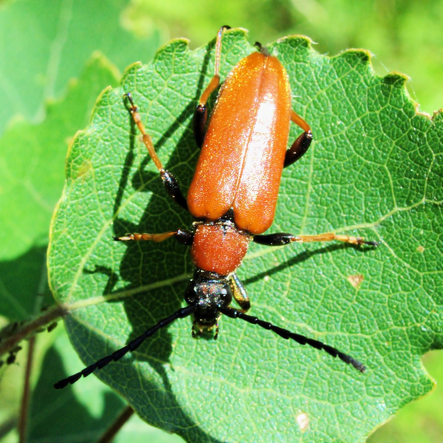 Name: Stictoleptura rubra, female. Family: Cerambycidae. Location: Münster, NRW, Germany